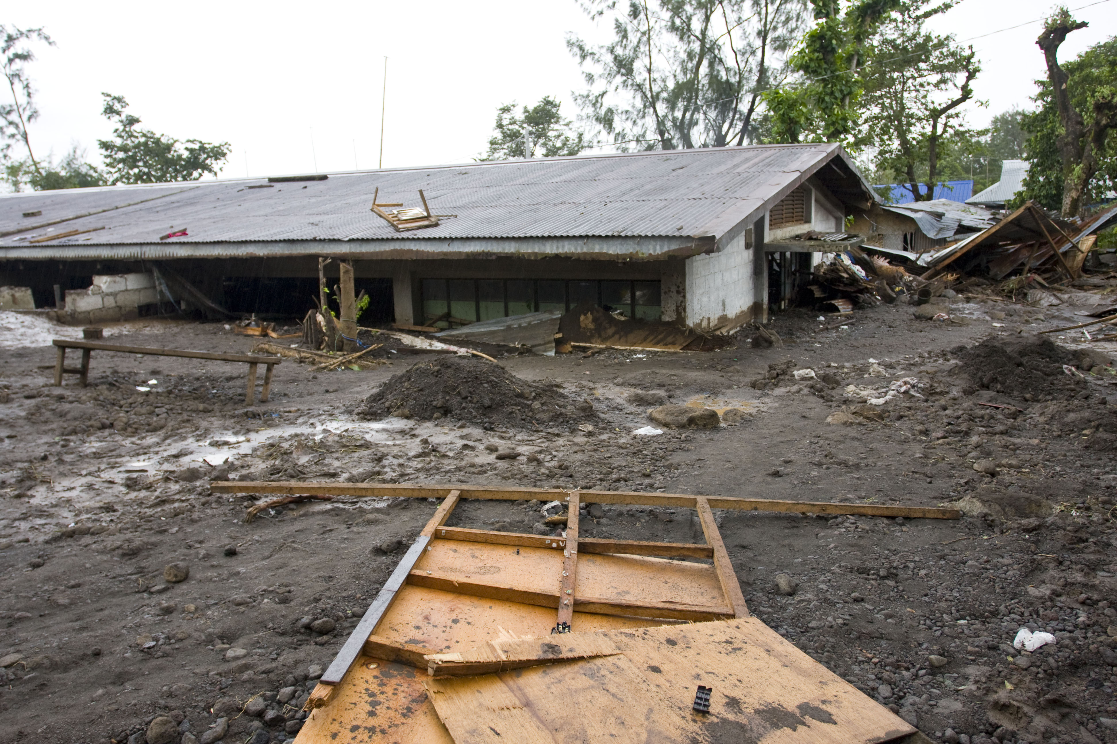 Landslide in Barangay San Juan Banyo which is within the Arayat National Park that buried alive 12 villagers, eight of them children, at the height of then tropical storm Ketsana on Saturday, September 26 2009